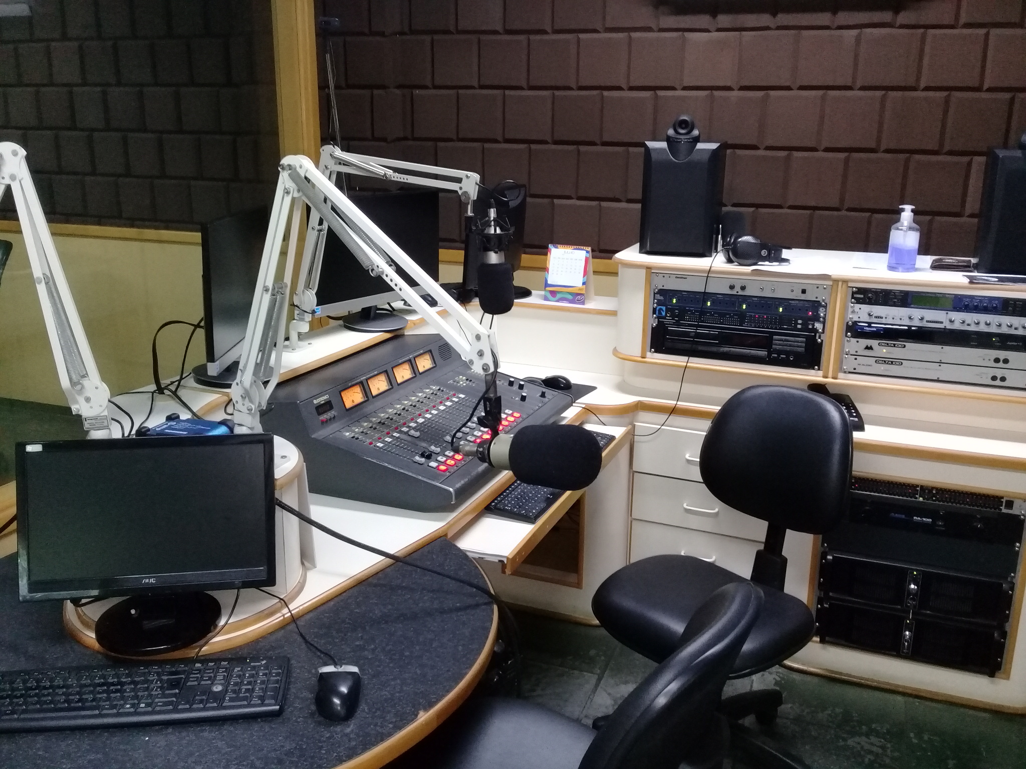 Studios of Rádio Difusora FM 105.9, based in Ponta Grossa, Brazil.